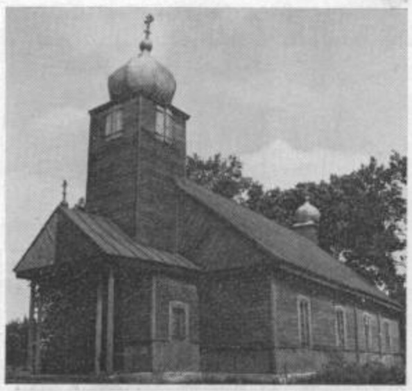 Апидомская старообрядческая церковь, 1985 год